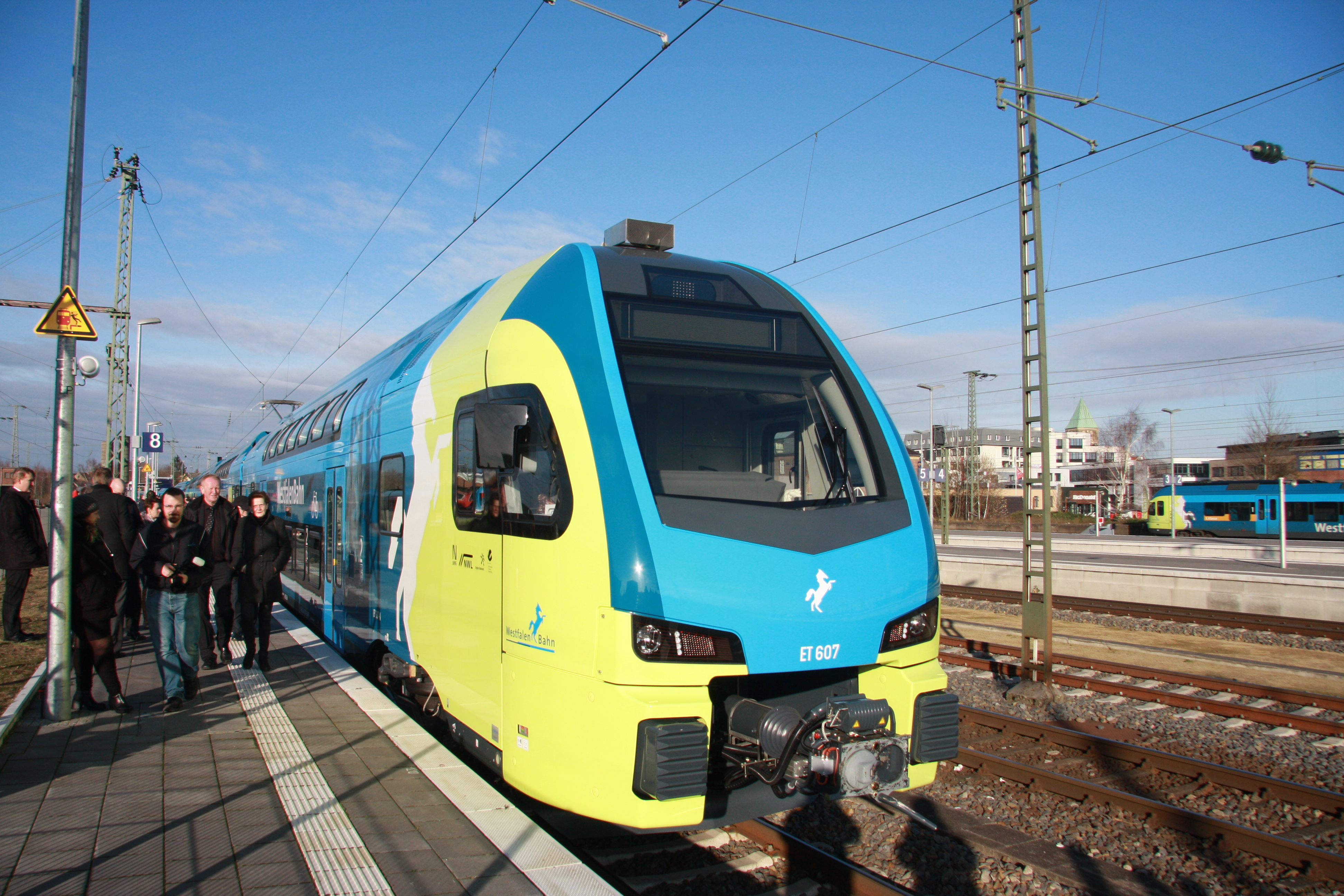 ET 607 double-decker train of Westfalenbahn in Rheine station